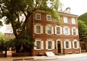 This is the Reynolds-Morris House today after renovation. It stands as a hotel and restaurant in center city Philadelphia.